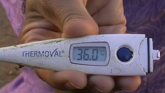 hypocalcemia in dairy cow : low temperature 35,6°C (normal is 38,0-39,5°C)